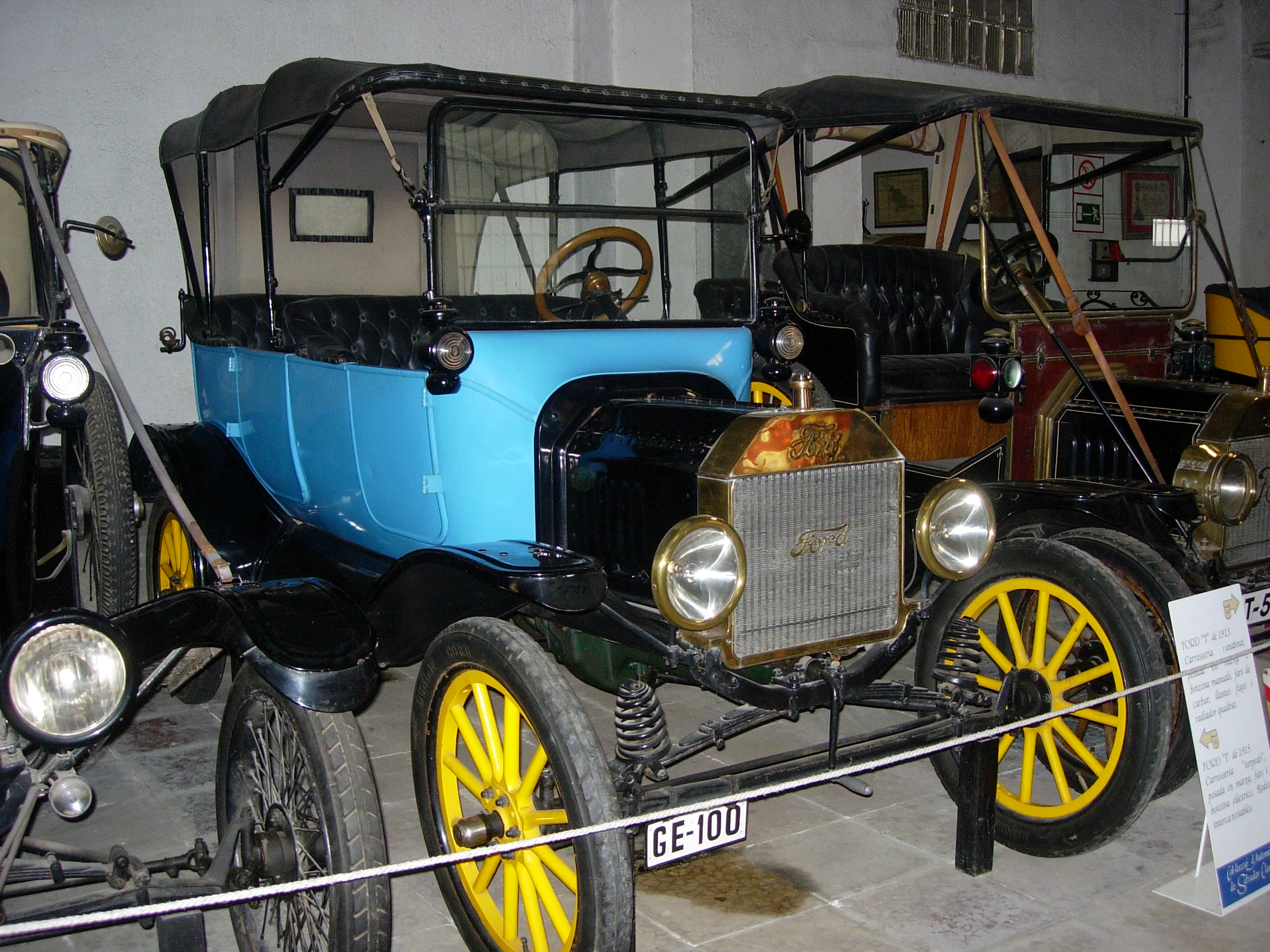 Ford T 1915